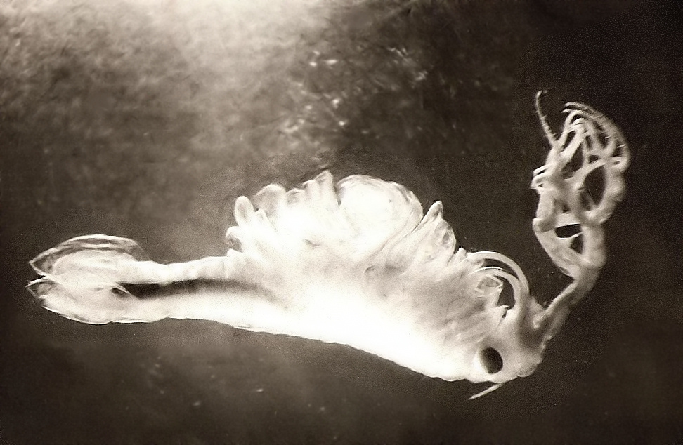 Photo of Thamnocephalus venezuelensis Belk & Pereira, 1982.